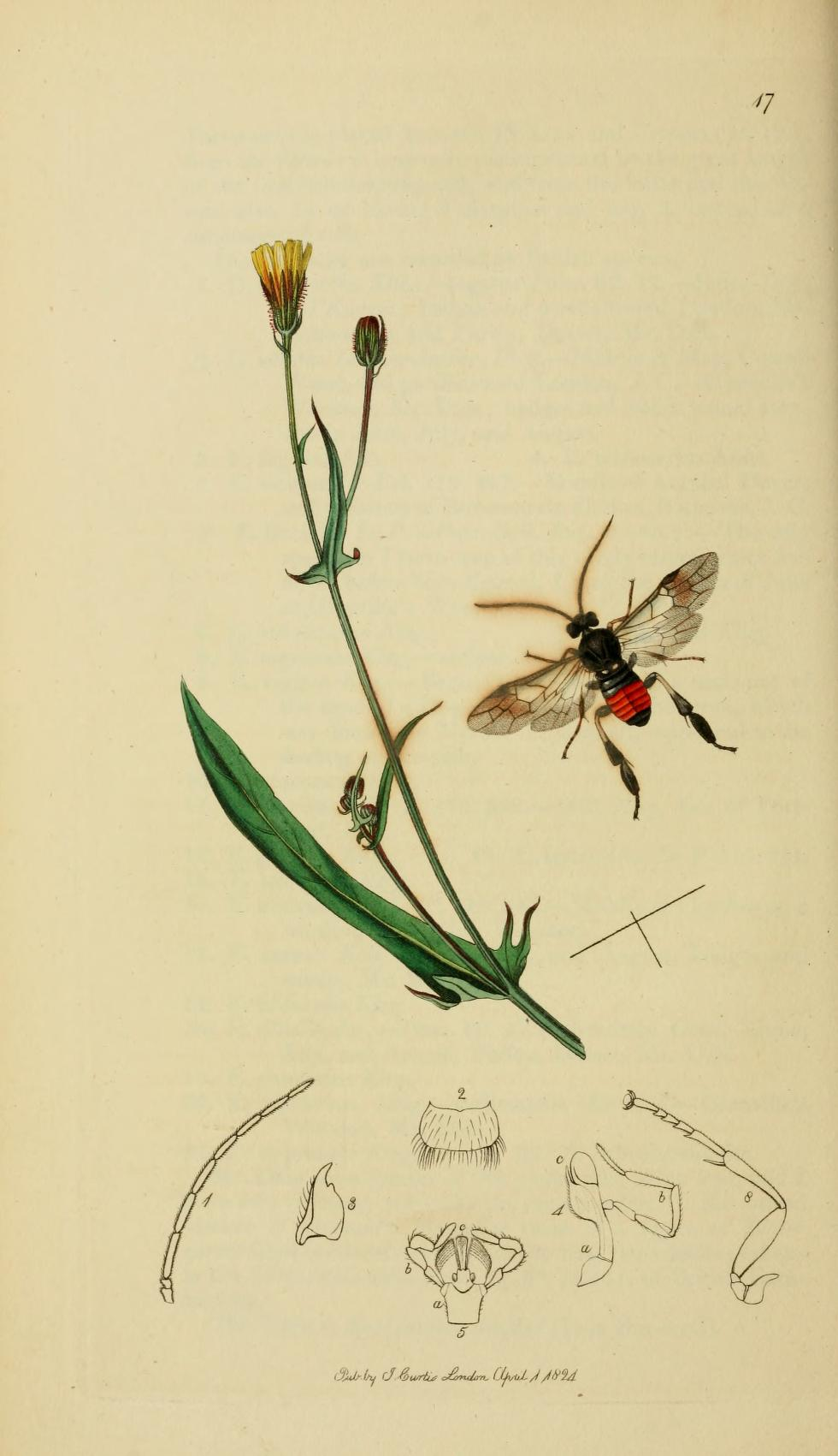 An illustration from British Entomology by John Curtis.Croesus septentrionalis (Flat-legged Tenthred